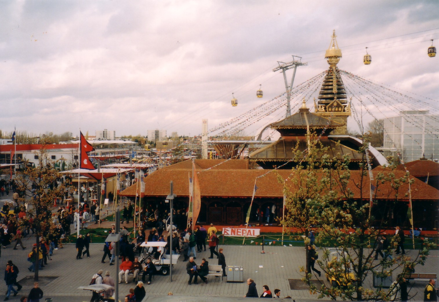 Expo 2000, Hanover, Germany - pavilion of Nepal